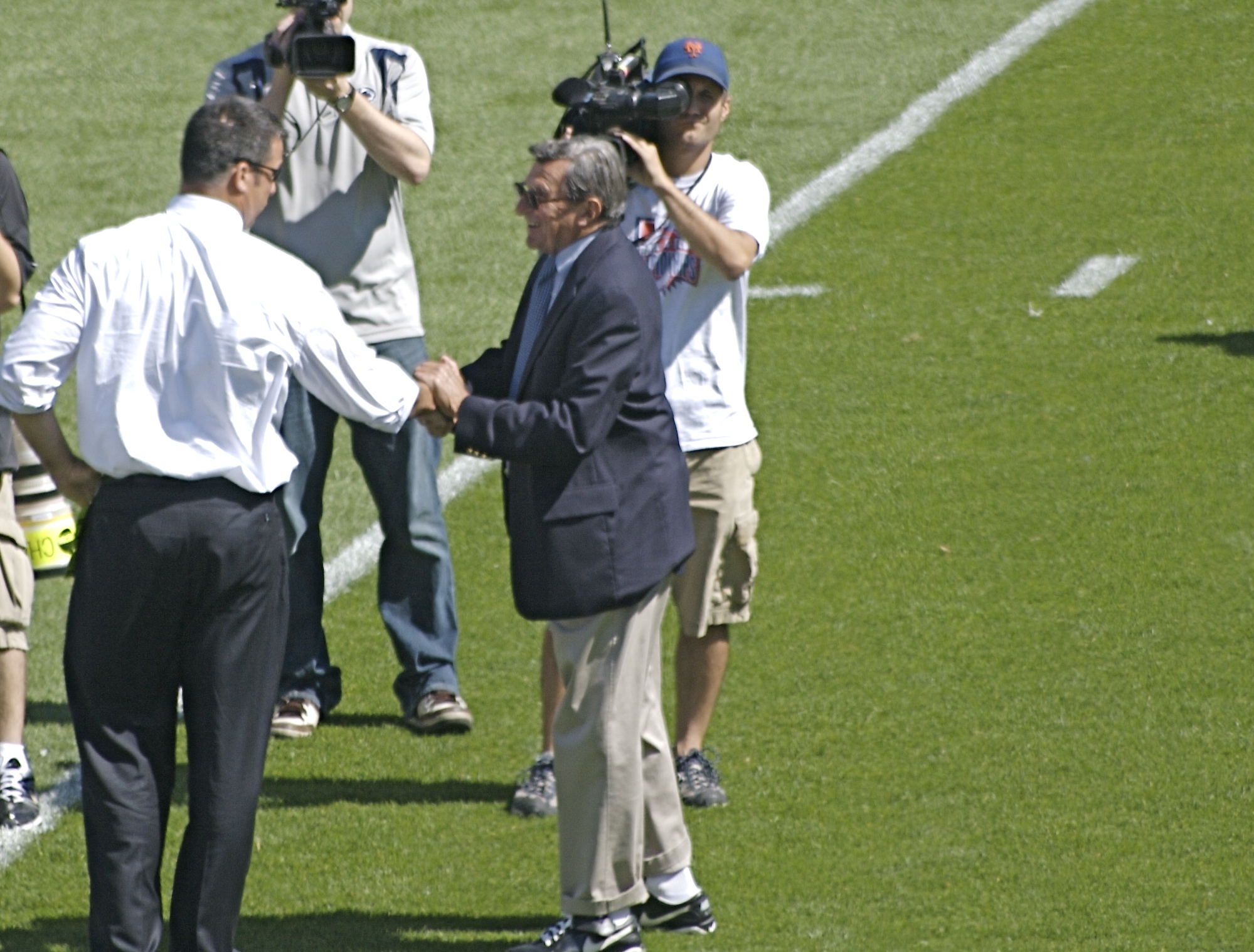 Joe Paterno shakes hands with Florida International coach Mario Cristobal before the game. Penn State took on Florida International University at Beaver Stadium in University Park, PA on Saturday September 1, 2007. The final score was 59-0 with Penn State the victor.